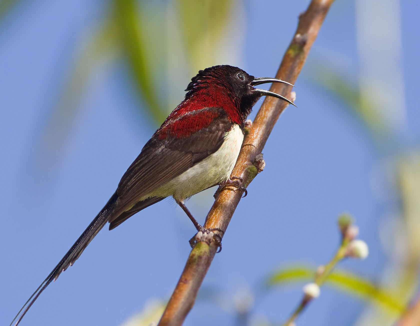 An adult male Aethopyga saturata galenae at the Royal Agricultural Station, Ang Khang, Mon Pin, Chiang Mai, Thailand